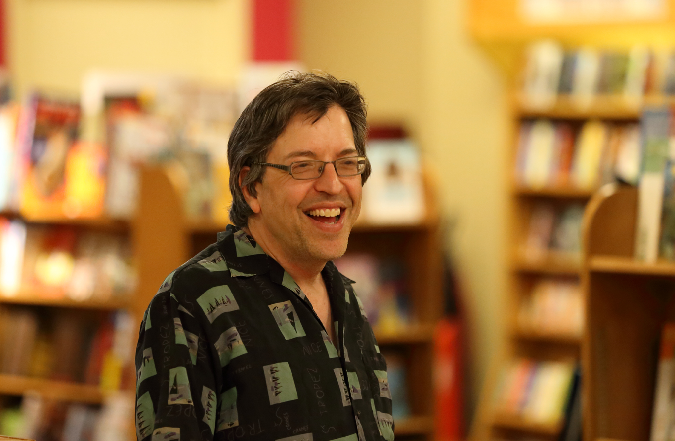 Paul Halpern (born 1961) is an American Professor of Physics, and Fellow in the Humanities at the University of the Sciences in Philadelphia.